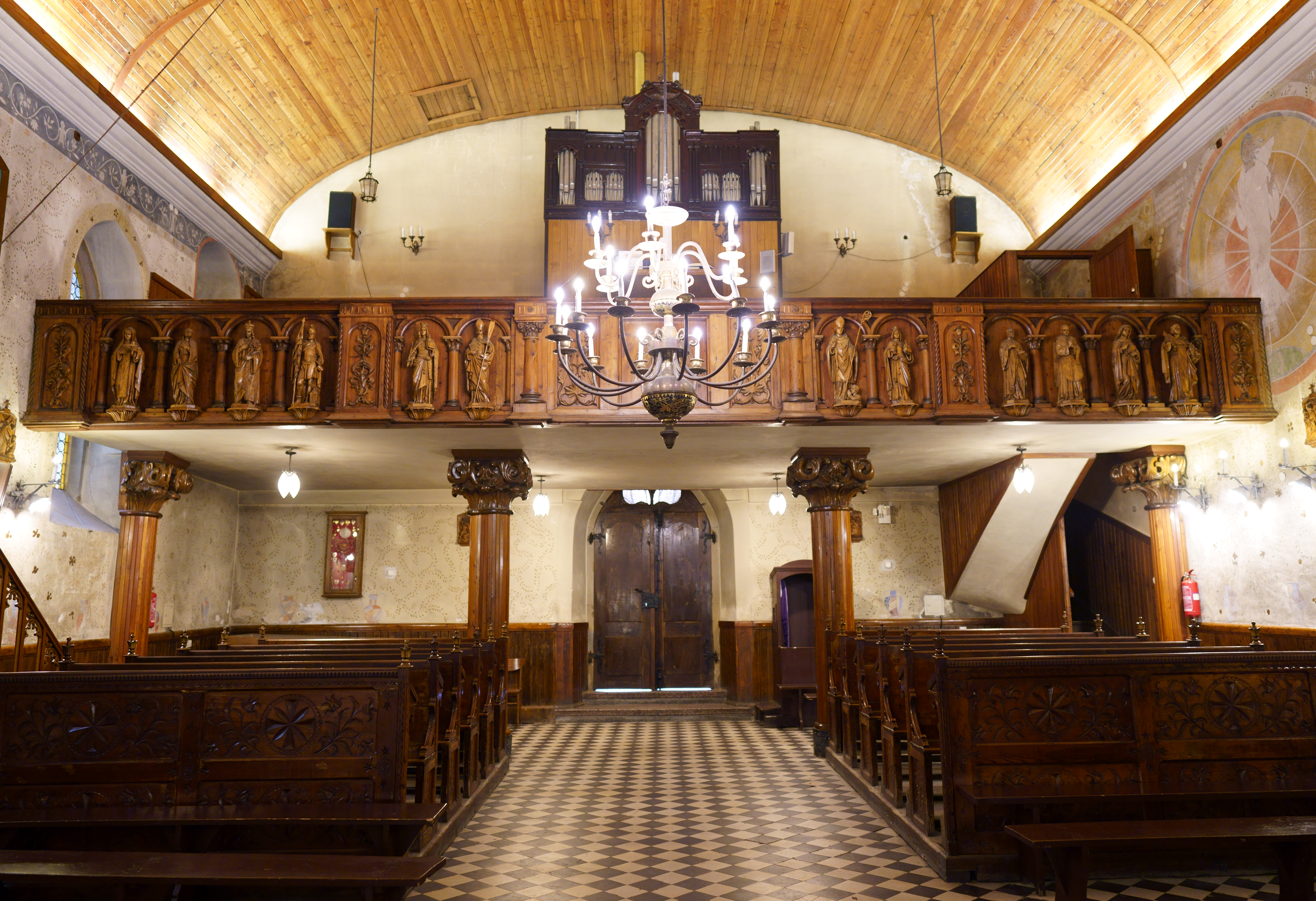 Church of St. Jacob in Myślenice